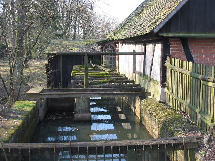 Historical watermill „Kupferhammer Thießen“ at river Rossel (Elbe-tributary) in the village Thießen. Thießen is a municipality in the nature park Fläming in the district Anhalt-Zerbst, state Saxony-Anhalt, Germany.